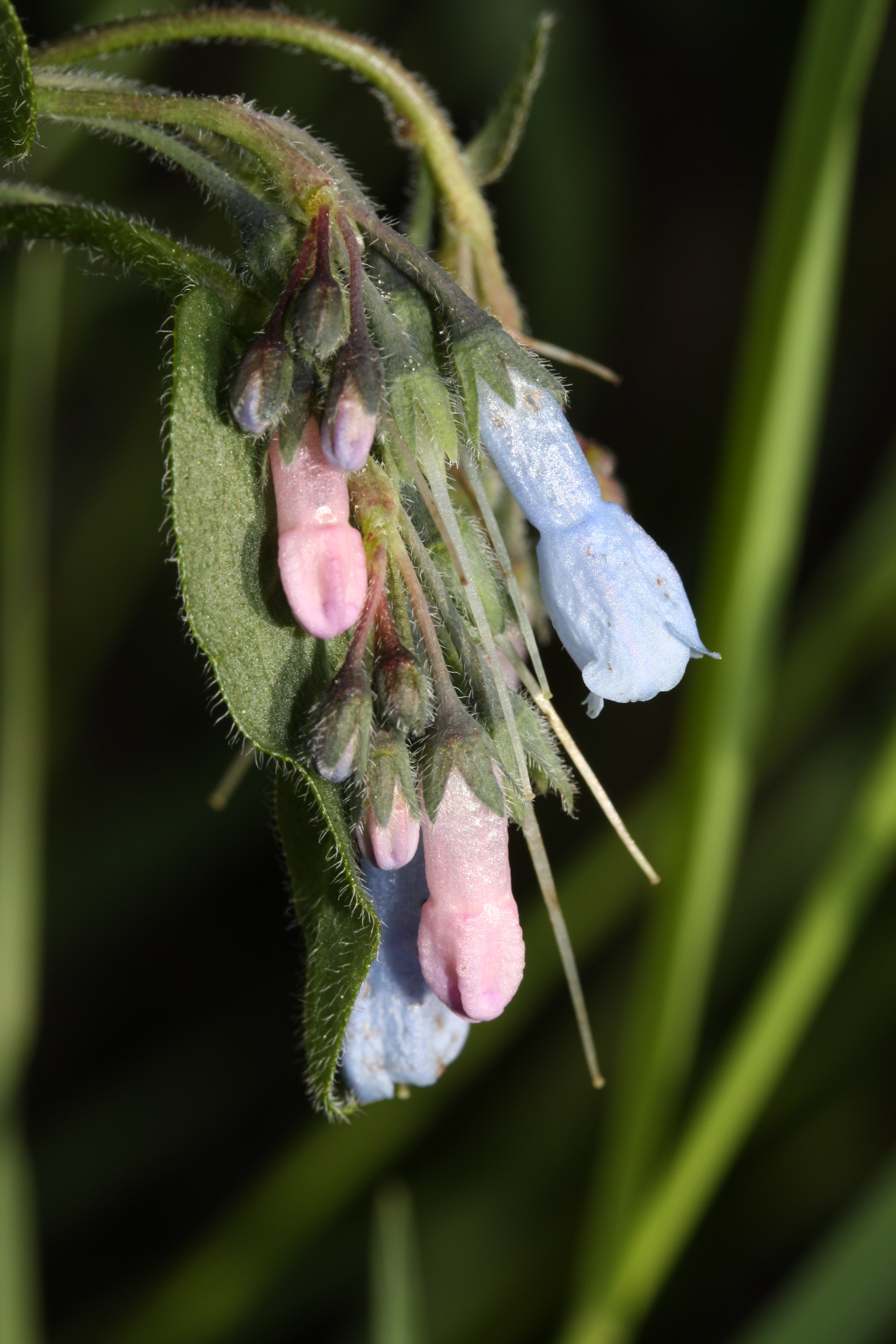 Oblongleaf Bluebells, Sagebrush Bluebells